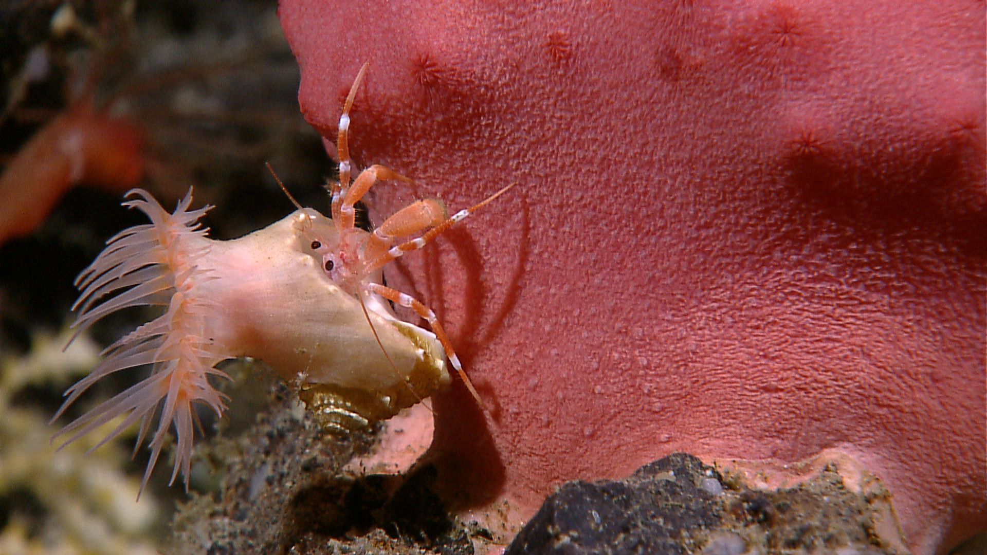 It is not uncommon to see smaller invertebrates hitching a ride on larger ones. Crabs in the intertidal zone will often have barnacles or limpets attached to their exoskeletons. In this case, an anemone appears to have settled on the snail shell that this hermit crab calls home. A complex set of events must have led to this association but it does not seem to be singular as we saw several such adorned crabs. Image courtesy of NOAA Okeanos Explorer Program, INDEX-SATAL 2010.